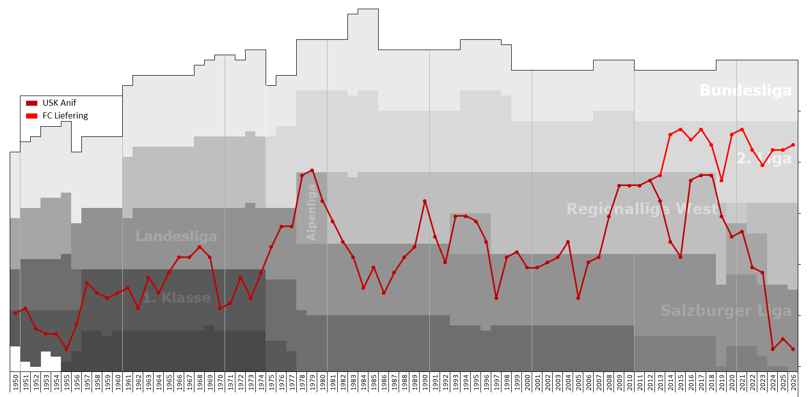 Chart of end-season table positions of Liefering and USK Anif in the Austrian football league system. Data source: RSSSF, , regiowiki.at, sfv.at, wikipedia